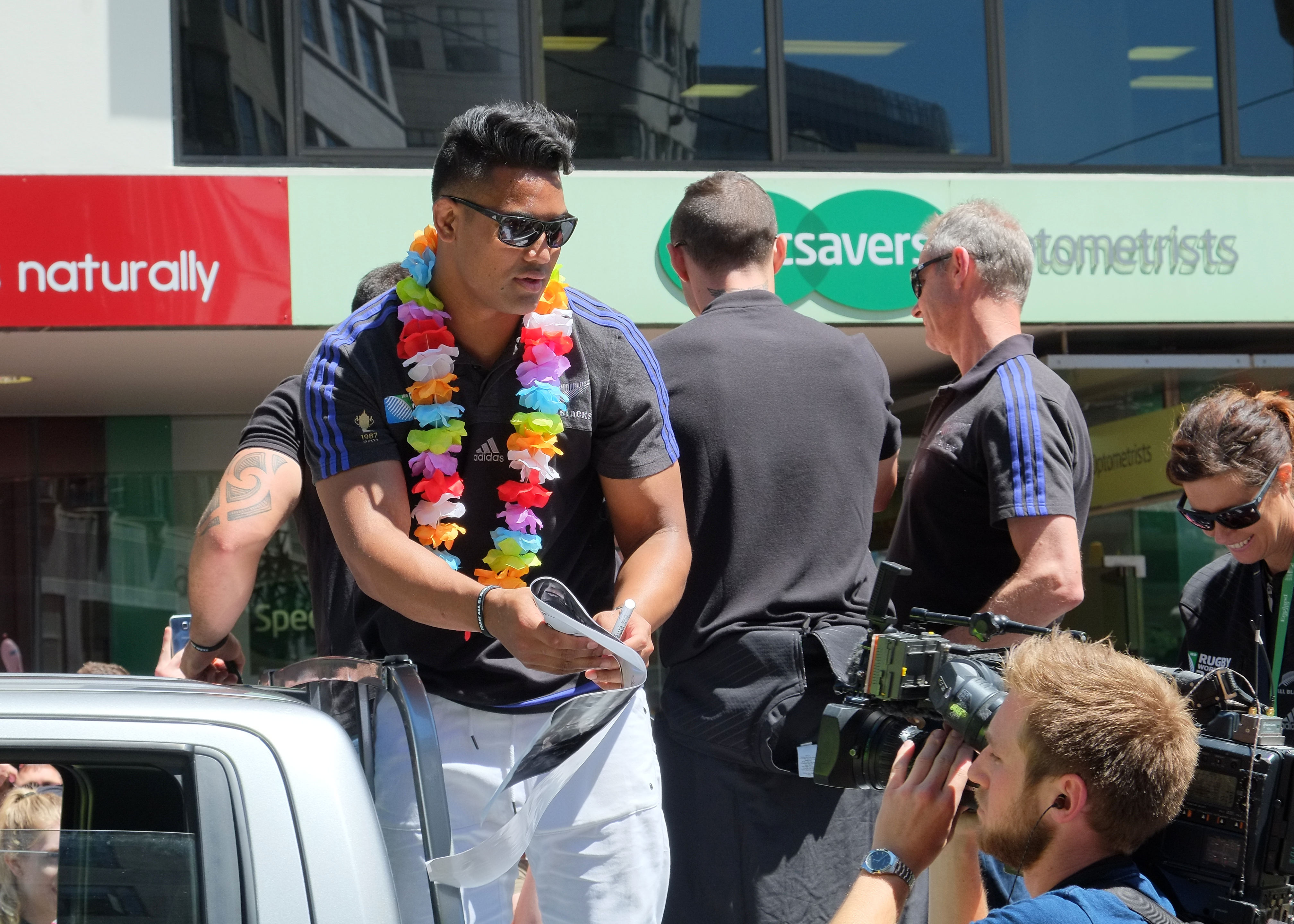 Julian Savea giving autograph at the 2015 RWC All Blacks victory parade in Wellington